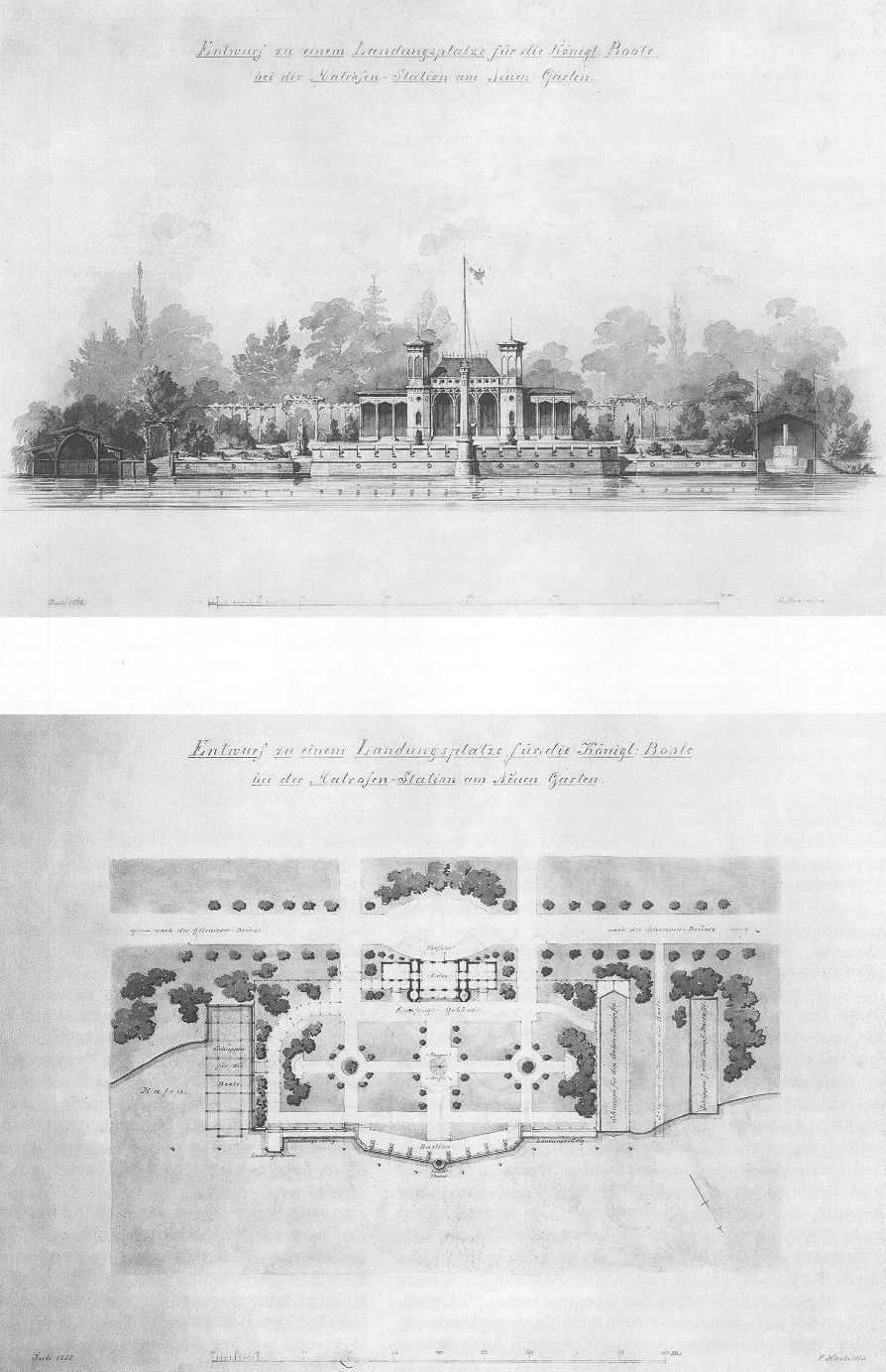 Sketch and map of the area of a sailors' station in Potsdam, Germany